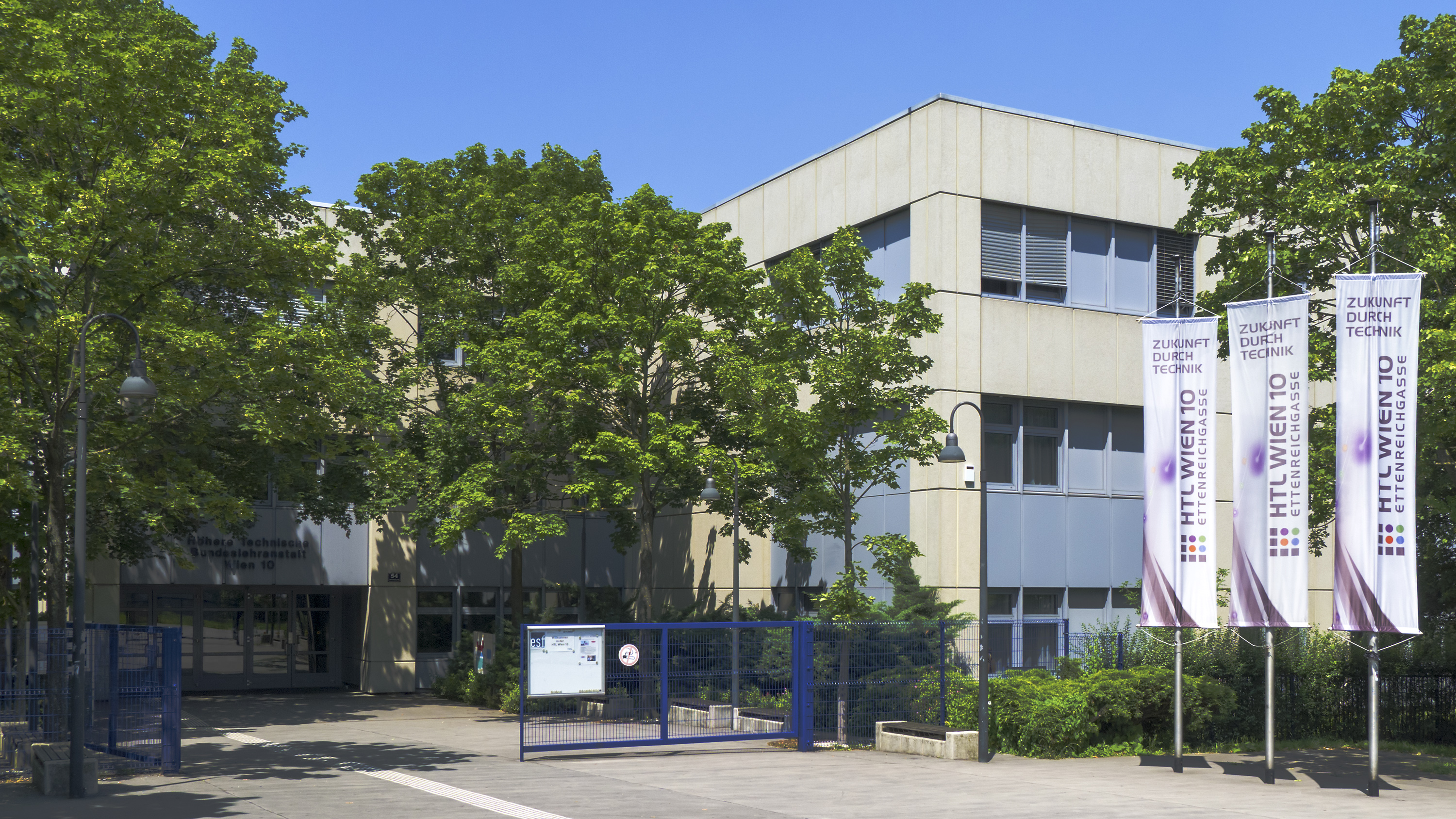 High school HTL Wien 10 in Vienna 10